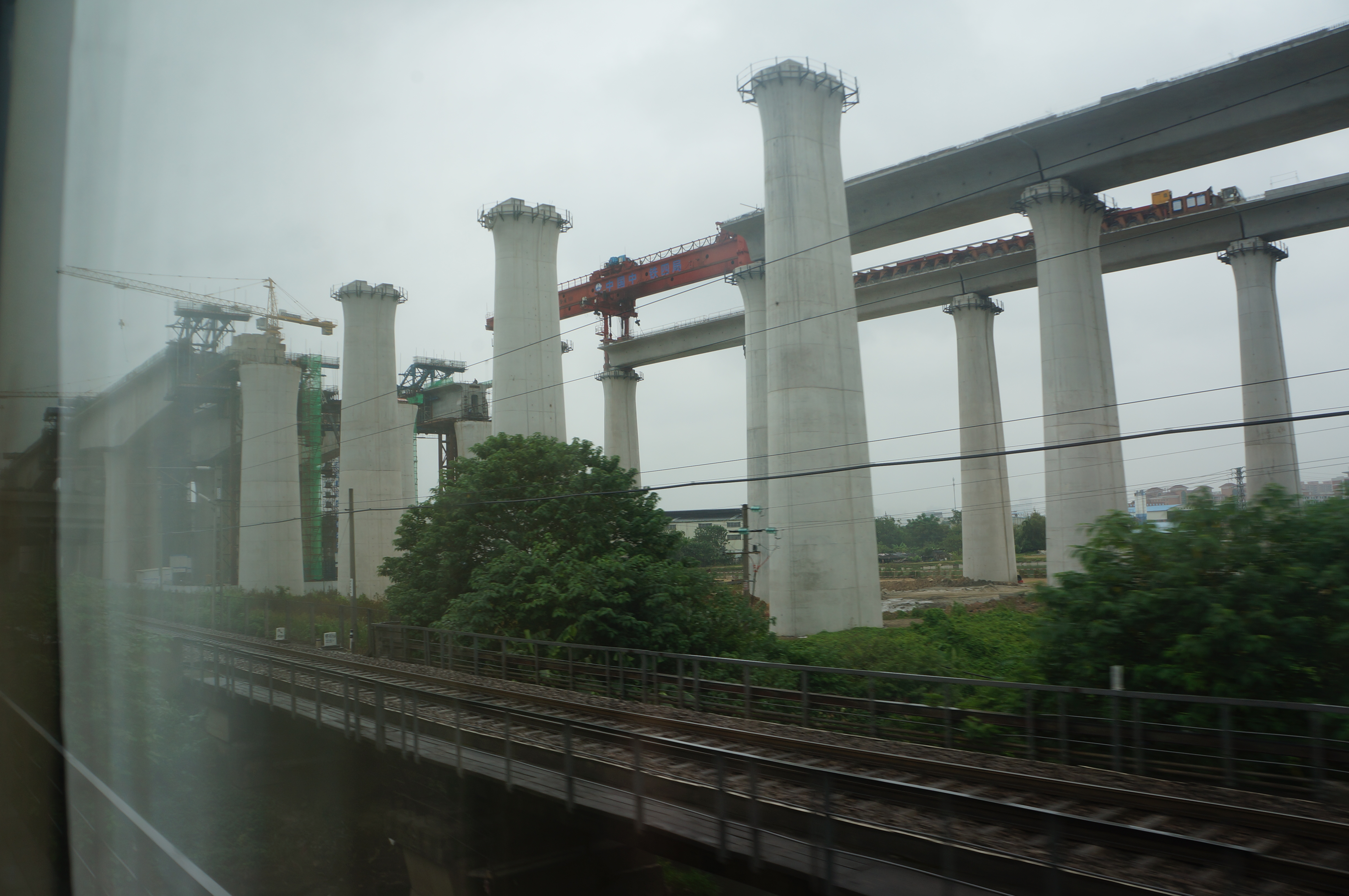 201609 Connector-lines of Guangzhou–Qingyuan Intercity Railway